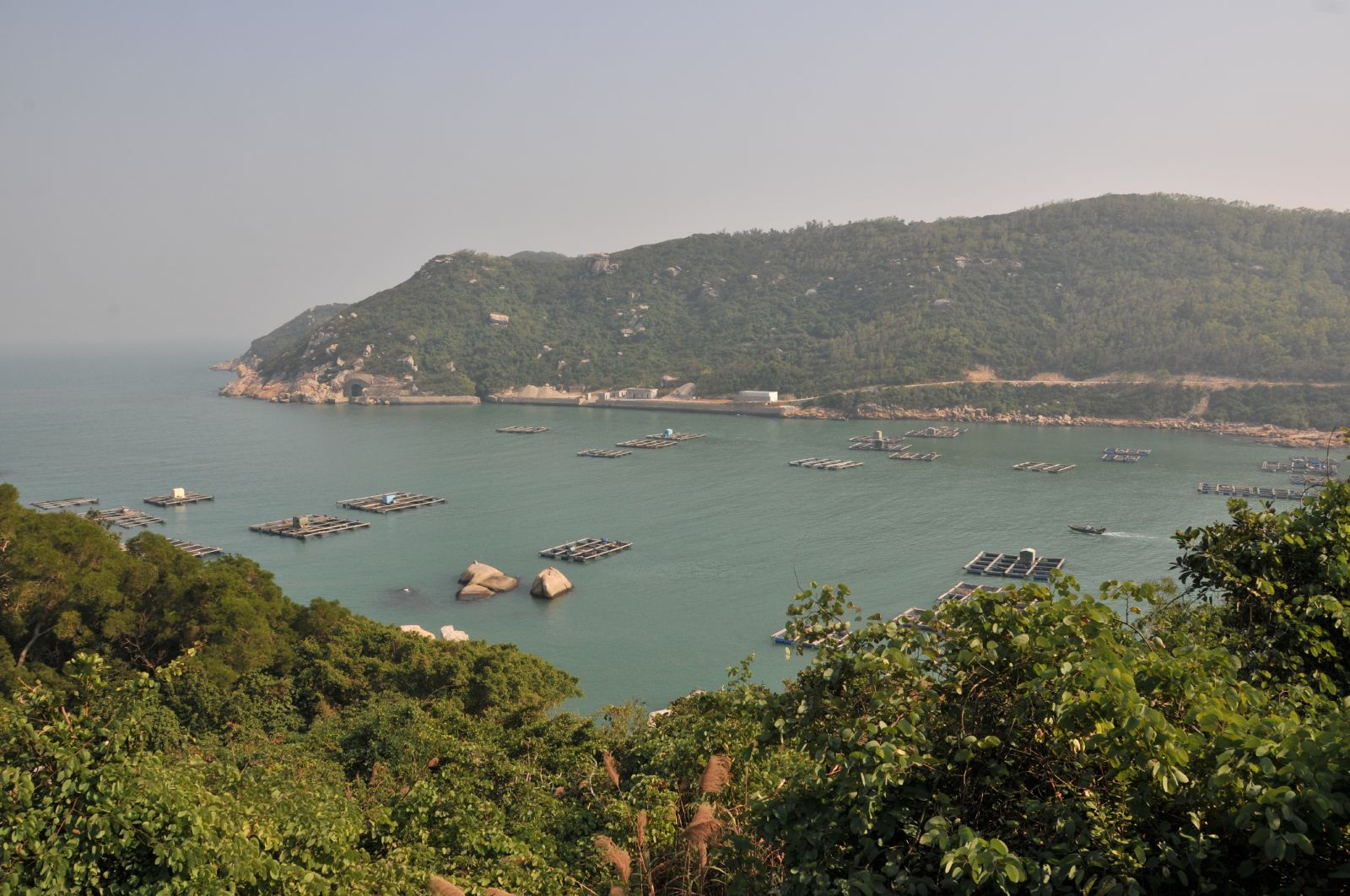 Tung O Island, Maan Saan Islands, Kwangtung 粵語: 廣東珠海東澳島